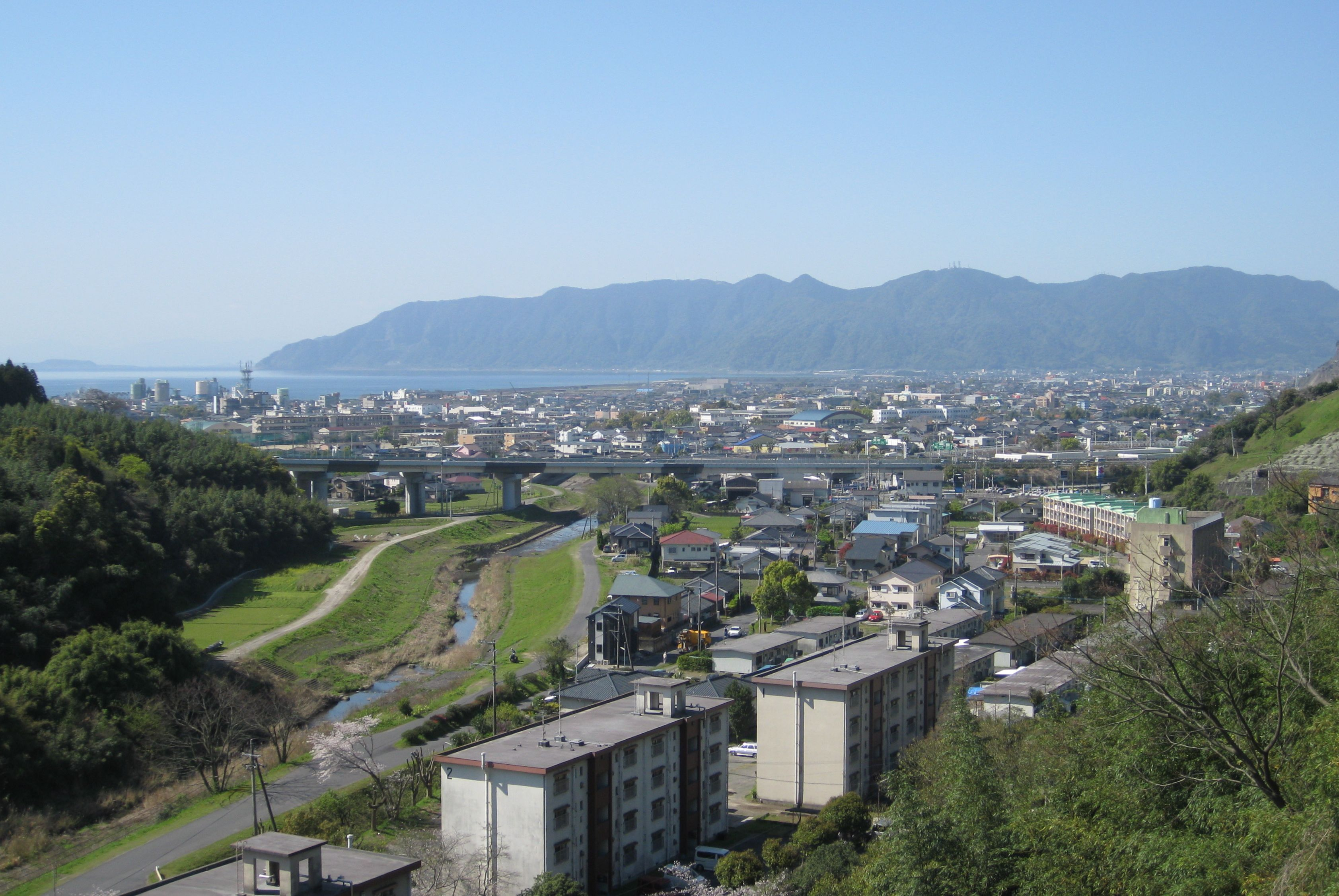 Aira Plain in Kagoshima, Japan